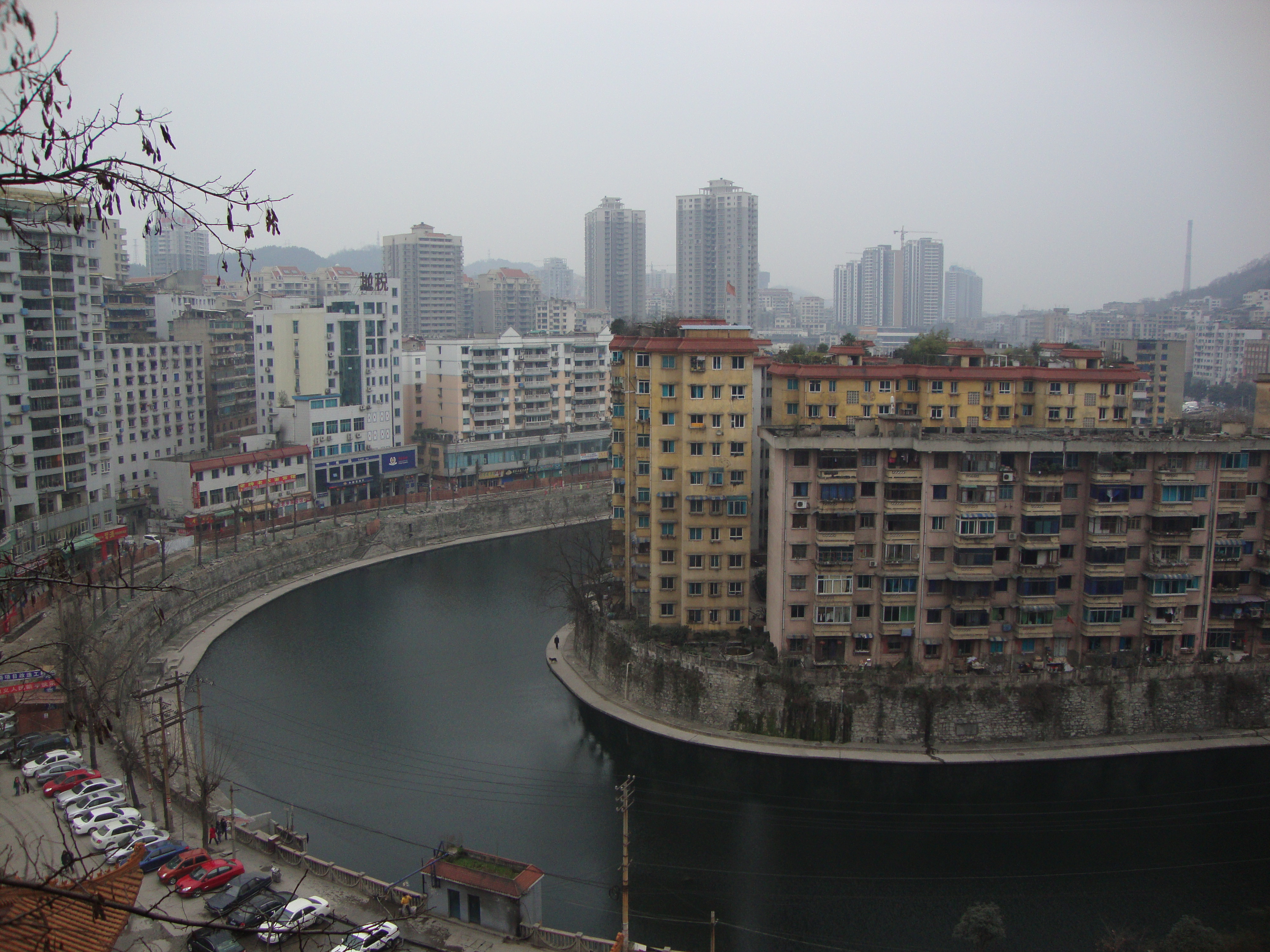 Zunyi skyline.